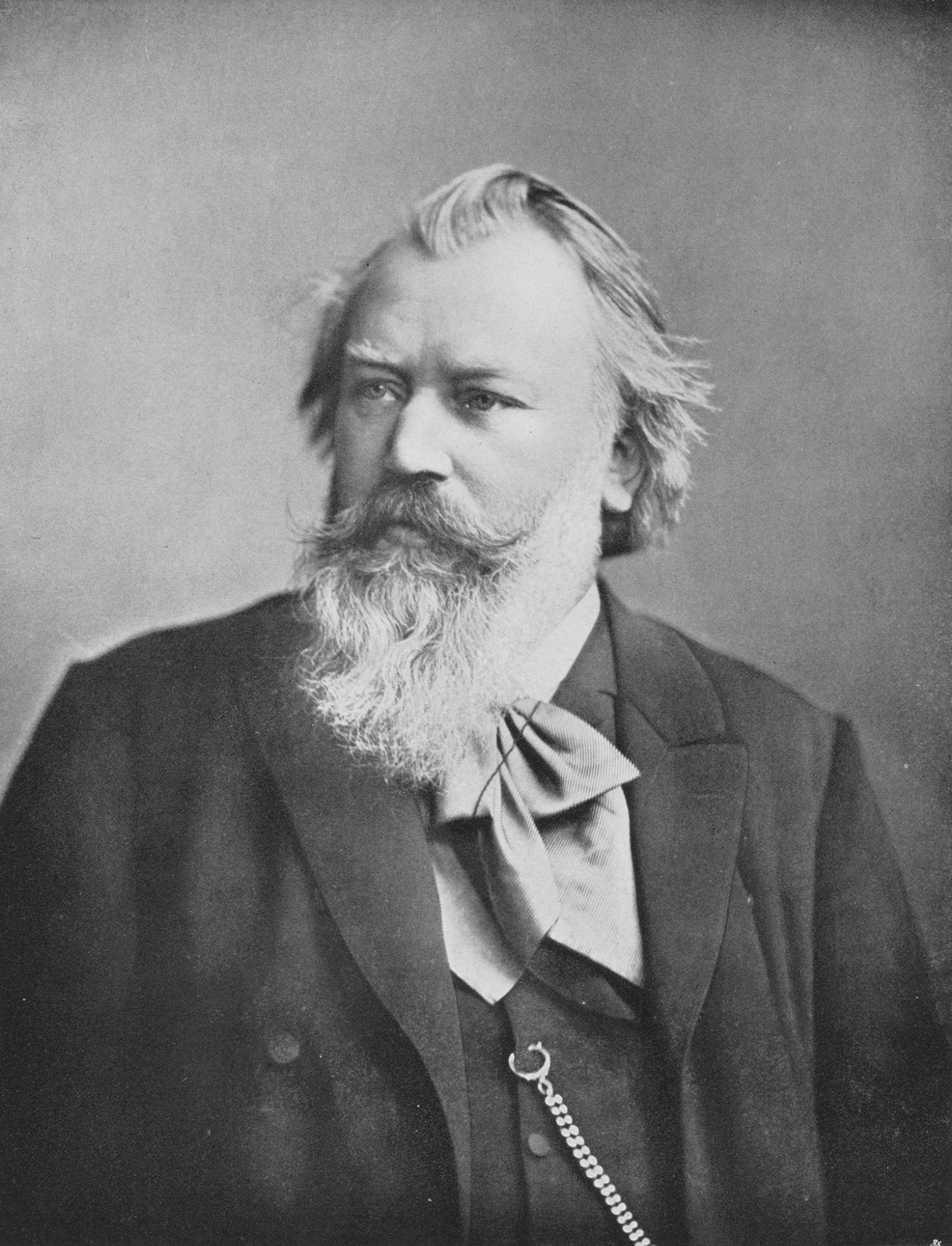 Portrait of Johannes Brahms (1833-1897)